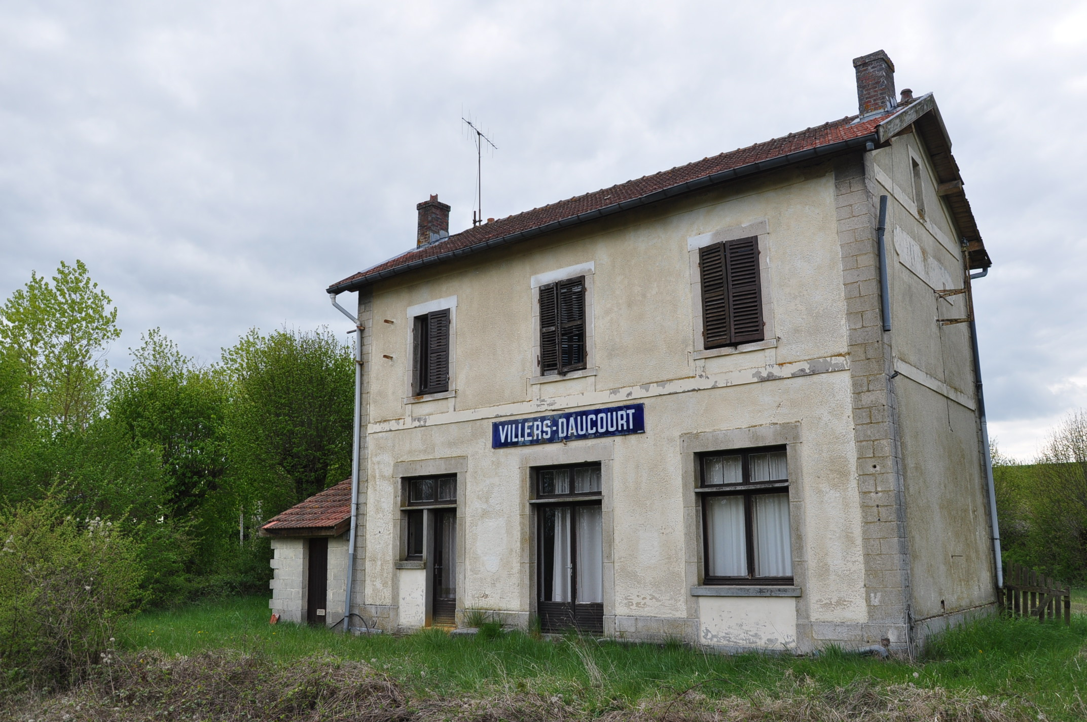 Abandoned railway station of Villers-en-Argonne/Daucourt. The station is located within the municipality of Châtrices (Marne department, France).